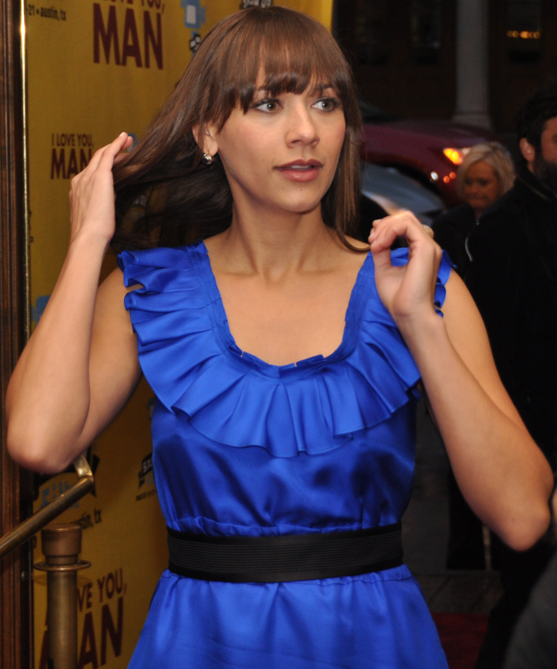 Rashida Jones at the Austin, TX premiere of I Love You, Man